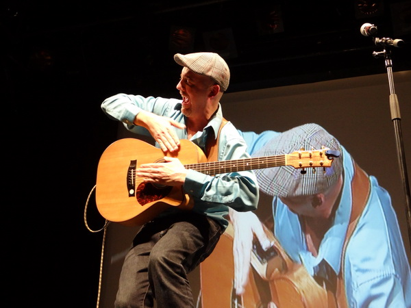 Adam Rafferty live in Concert - 2014